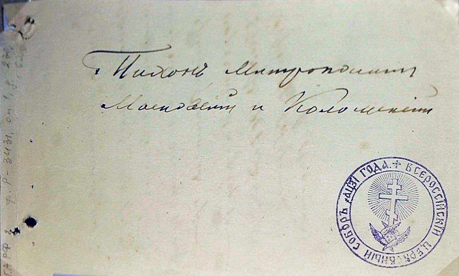 Lot with the Tikhons name